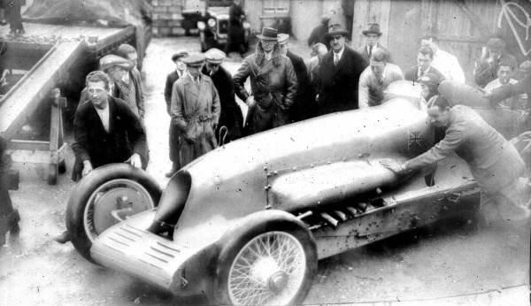 Malcolm Campbell's 1927 land speed record car Blue Bird, probably at Pendine Sands